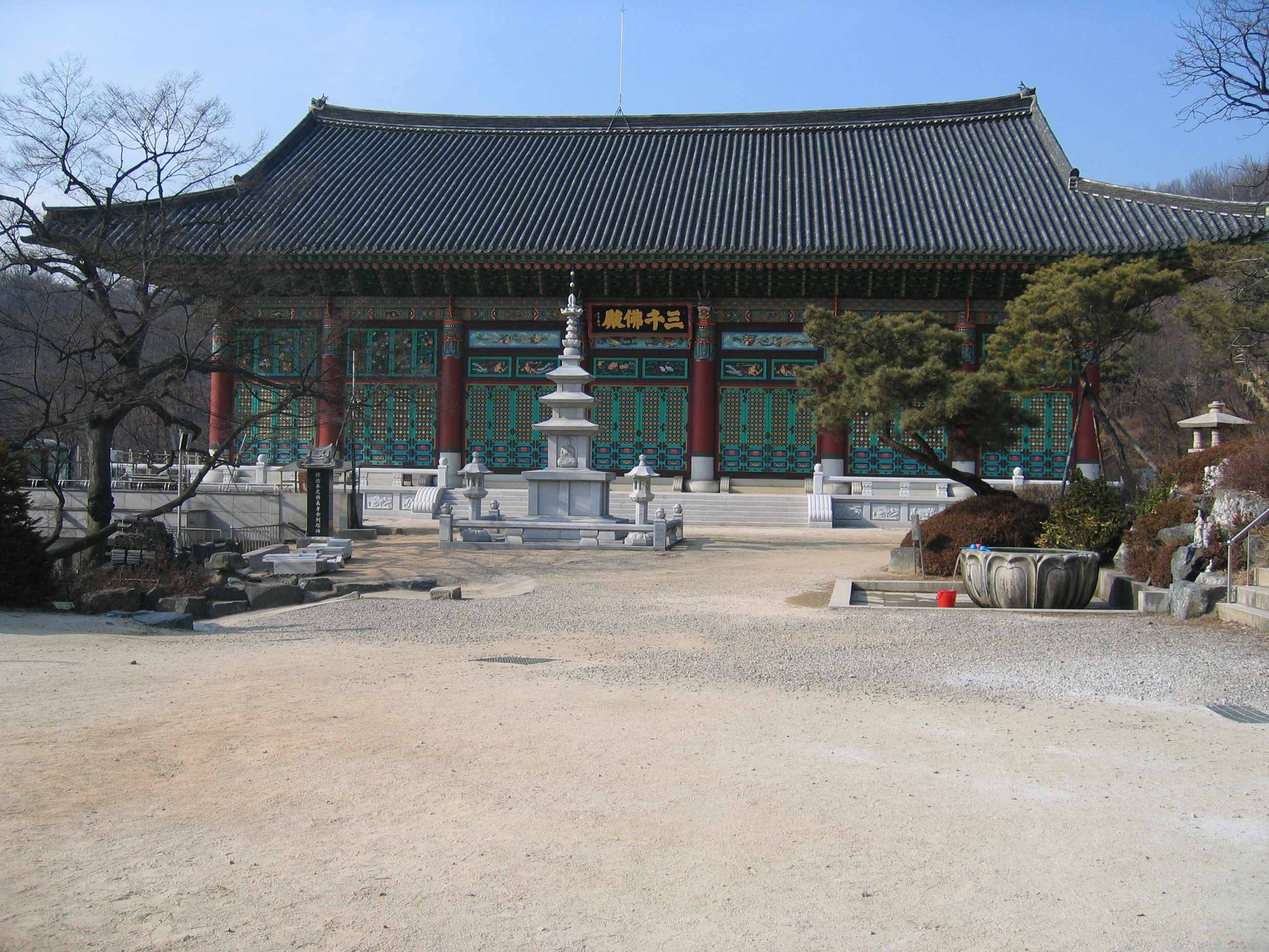 Samcheonbuljeon (lit. Hall of 3,000 Buddhas) at the Bongwon Temple, Seoul, South Korea